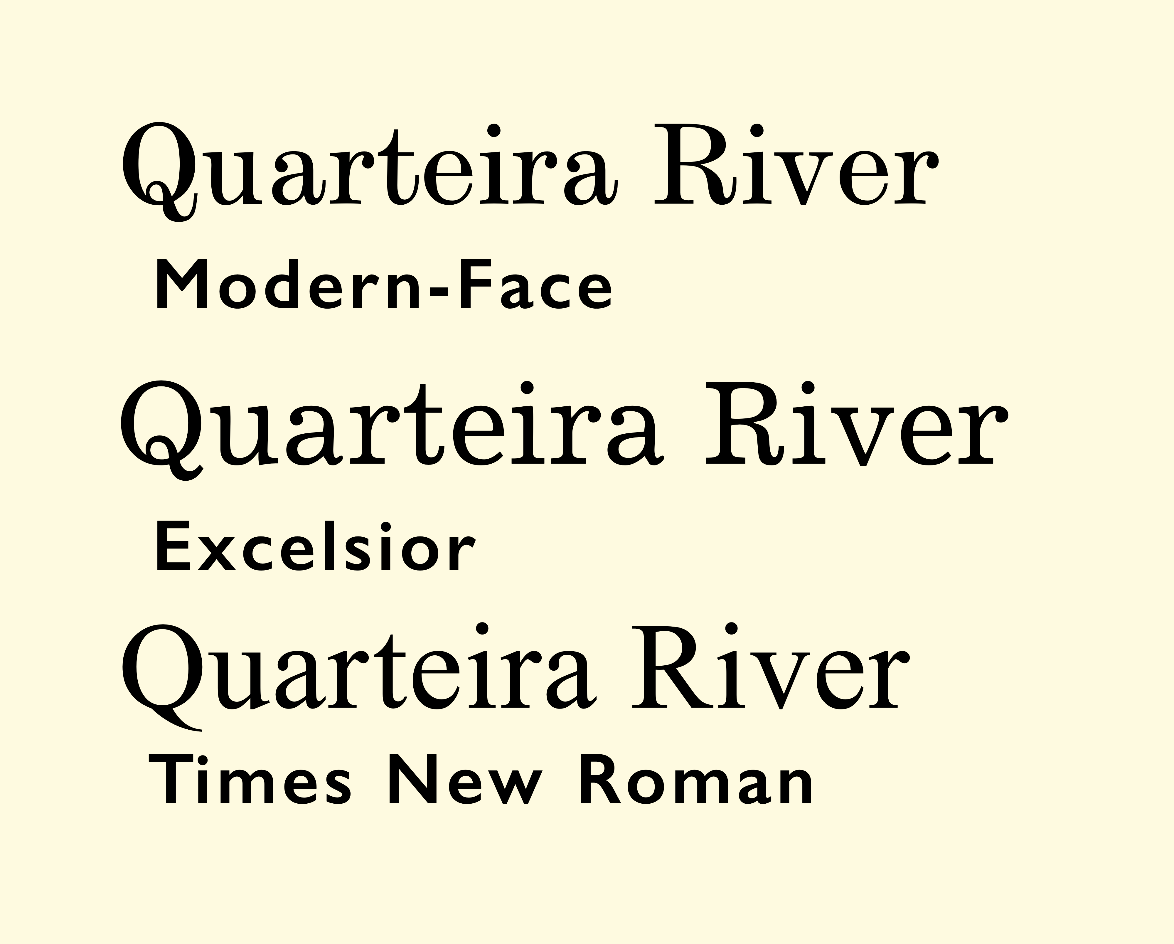 A comparison of three fonts used for newspapers: a "modern-face", a Linotype "legibility" face of the 1930s, and Times New Roman.